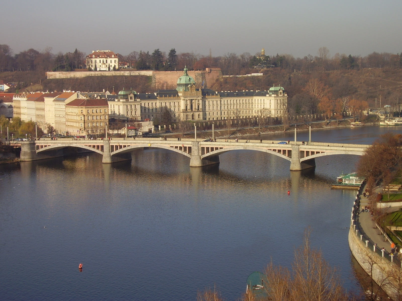 Prague november 2006